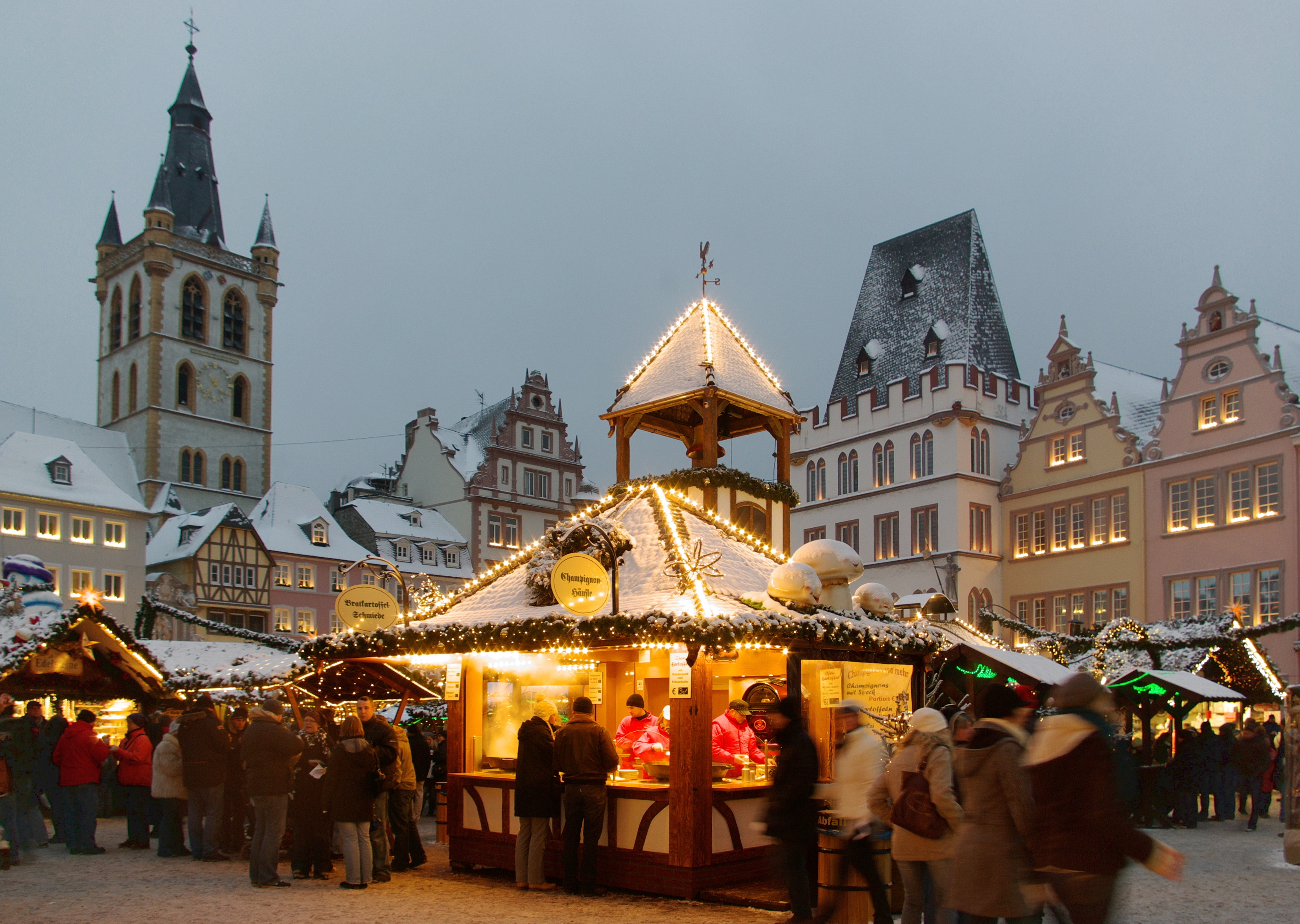 Christmas market in Trier, Germany